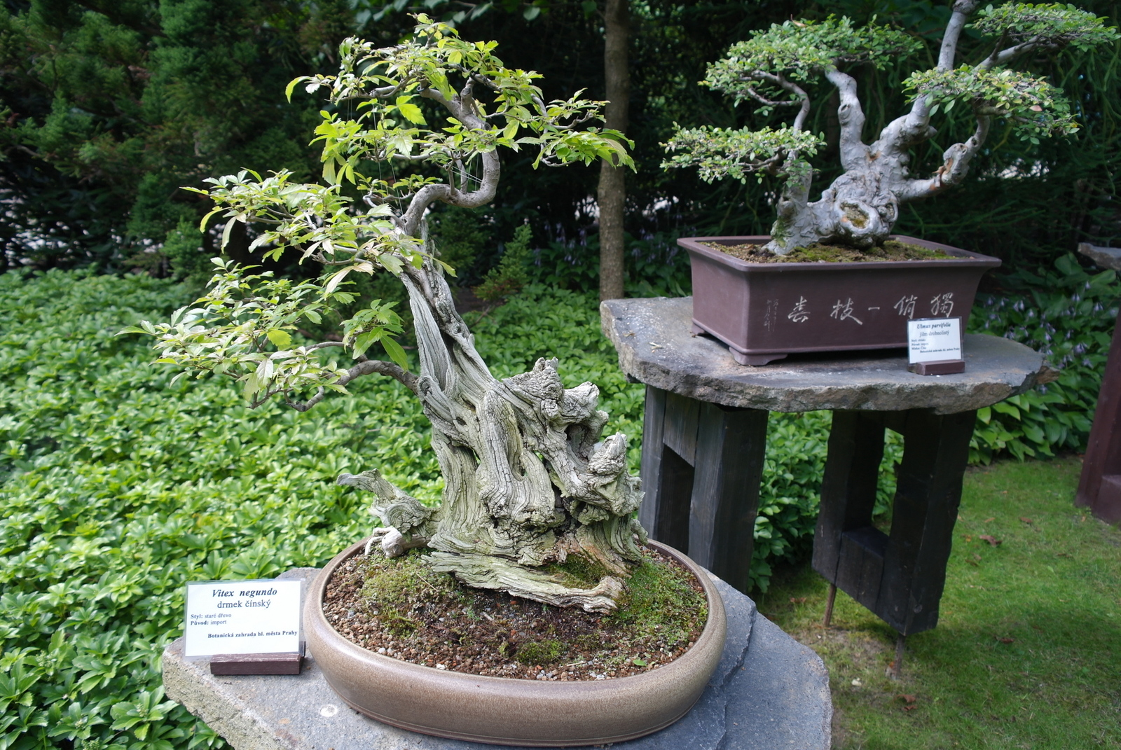 Prague Botanic Garden, Japanese garden, Nádvorní str. 134, Troja. Bonzai trees.